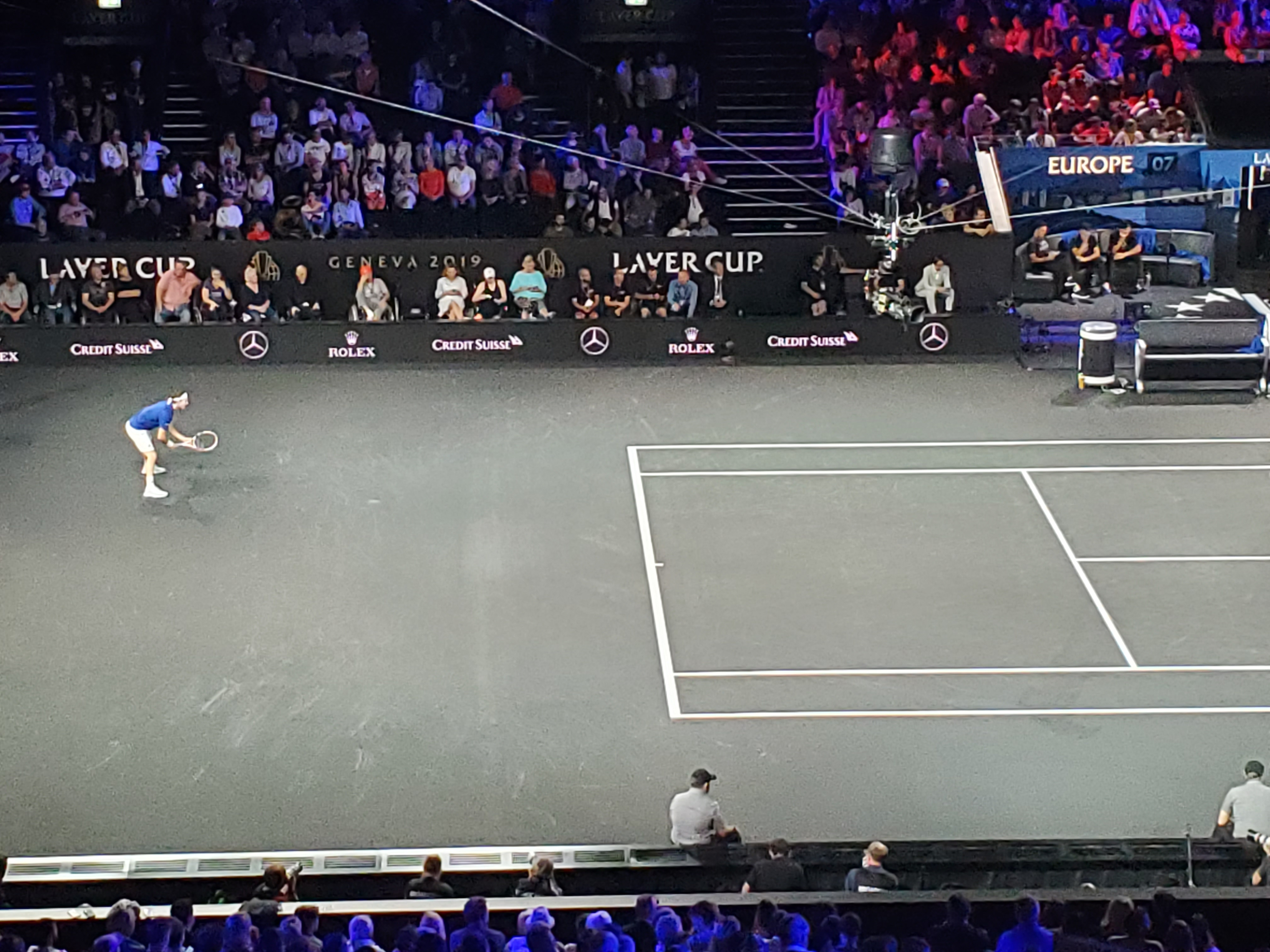 Laver Cup Dominic Thiem returning serve from another dimension